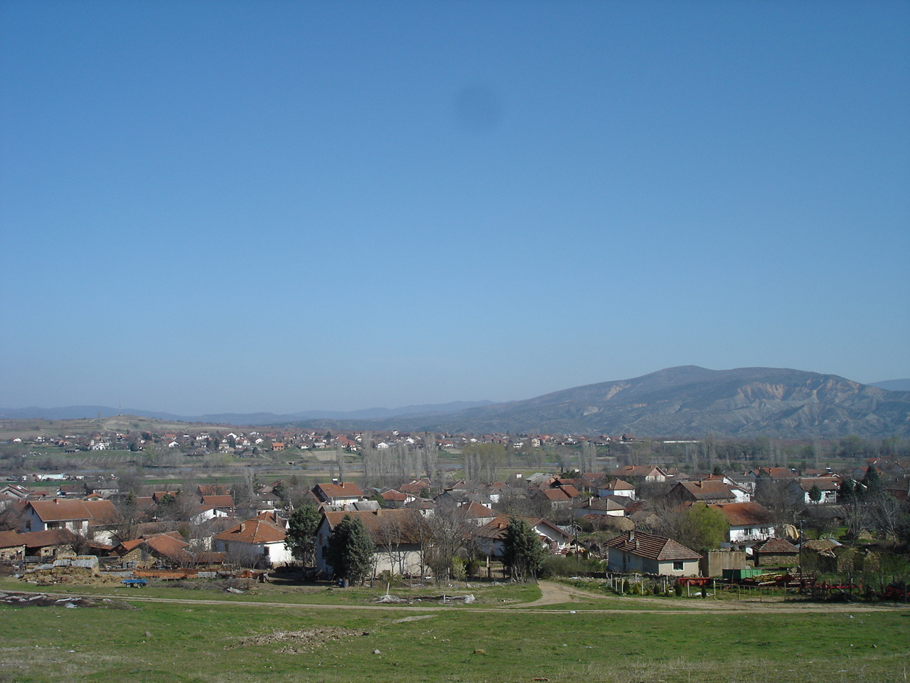 Village of Pepelište with Krivolak in the background, Negotino Municipality, Macedonia